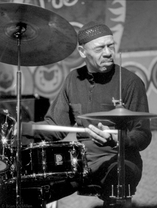 Eddie Gladden at Keystone Korner, San Francisco CA 1981, w/the Dexter Gordon Quartet / Photo by Brian McMillen /